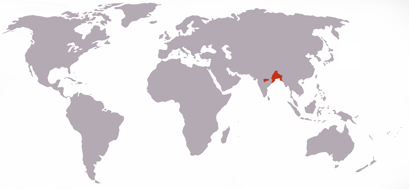 Current approximate habitat of Panthera tigris tigris(Bengal Tiger).